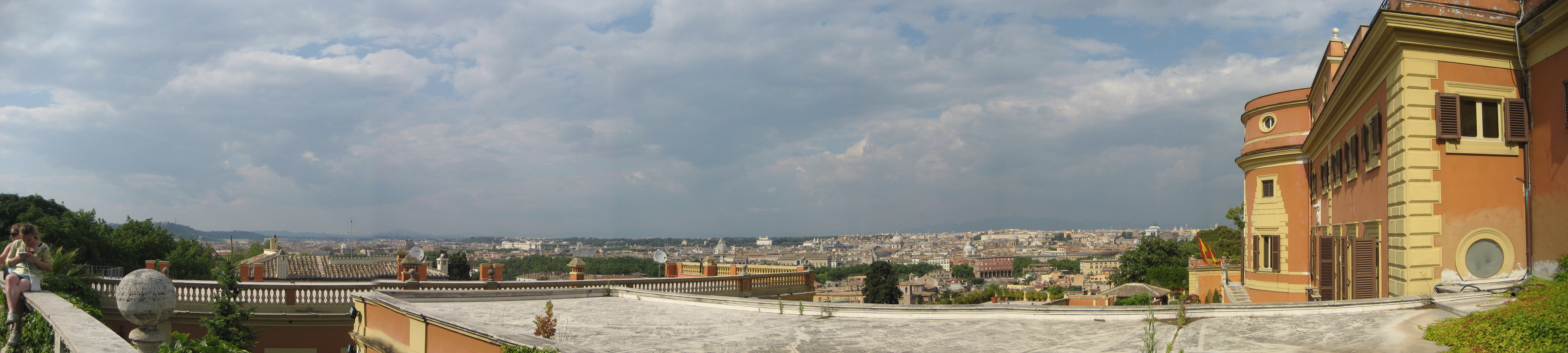 Autostitch panorama of view from Piazzale Giuseppe Garibaldi